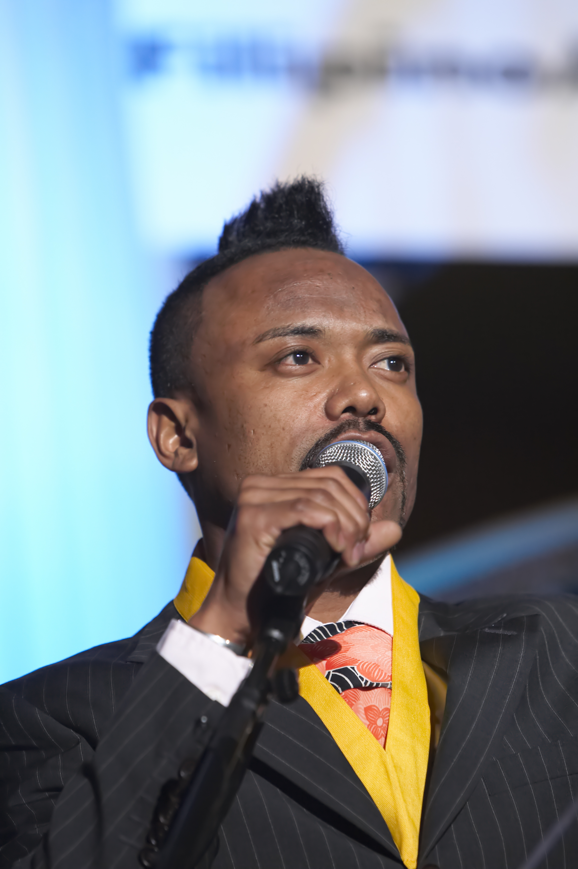 apl.de.ap being honored at the Filipino American Library Spirit Awards and Dinner GALA in Los Angeles, California.